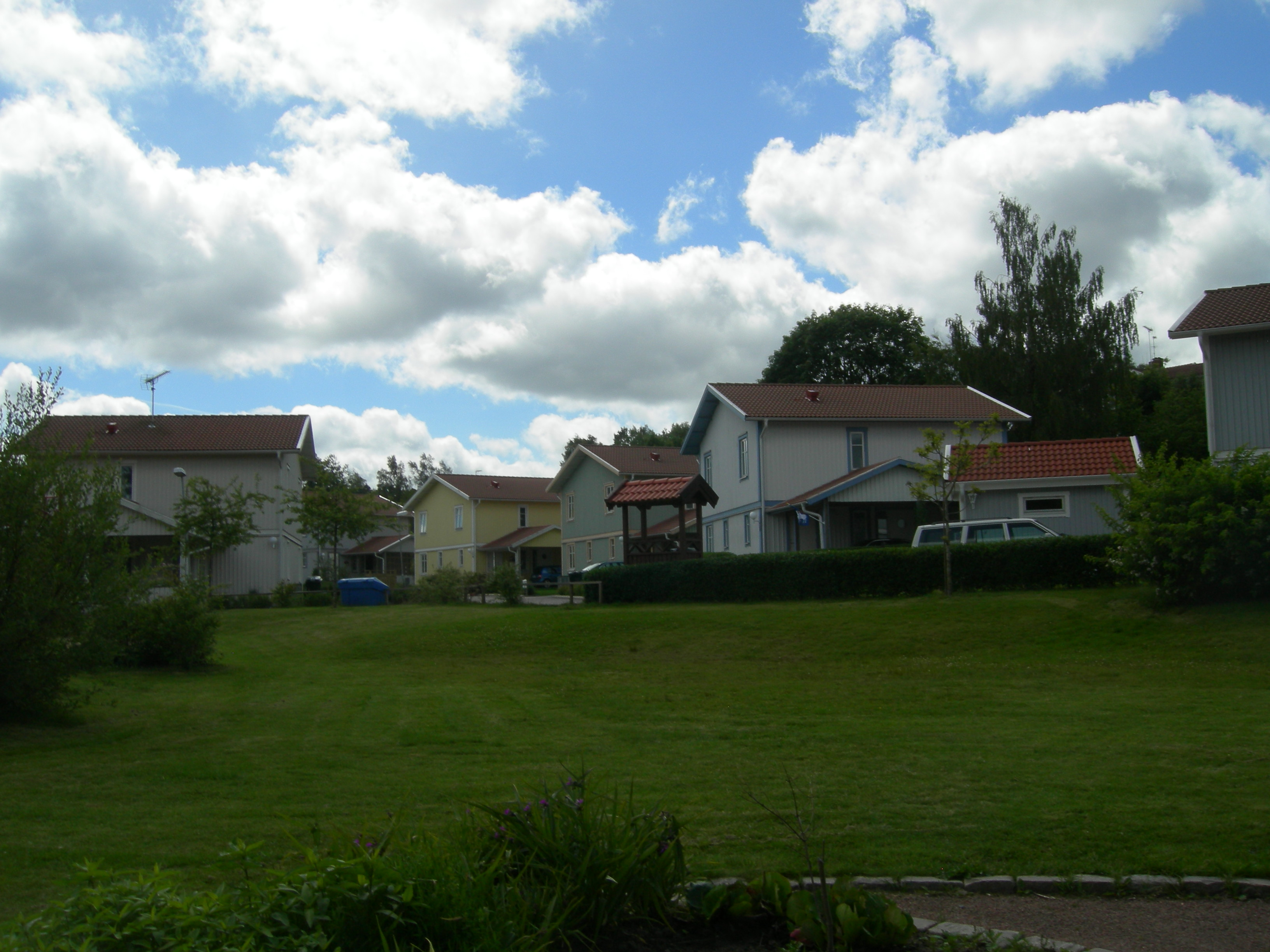 Småkulla, Olofstorp, Gothenburg, Sweden